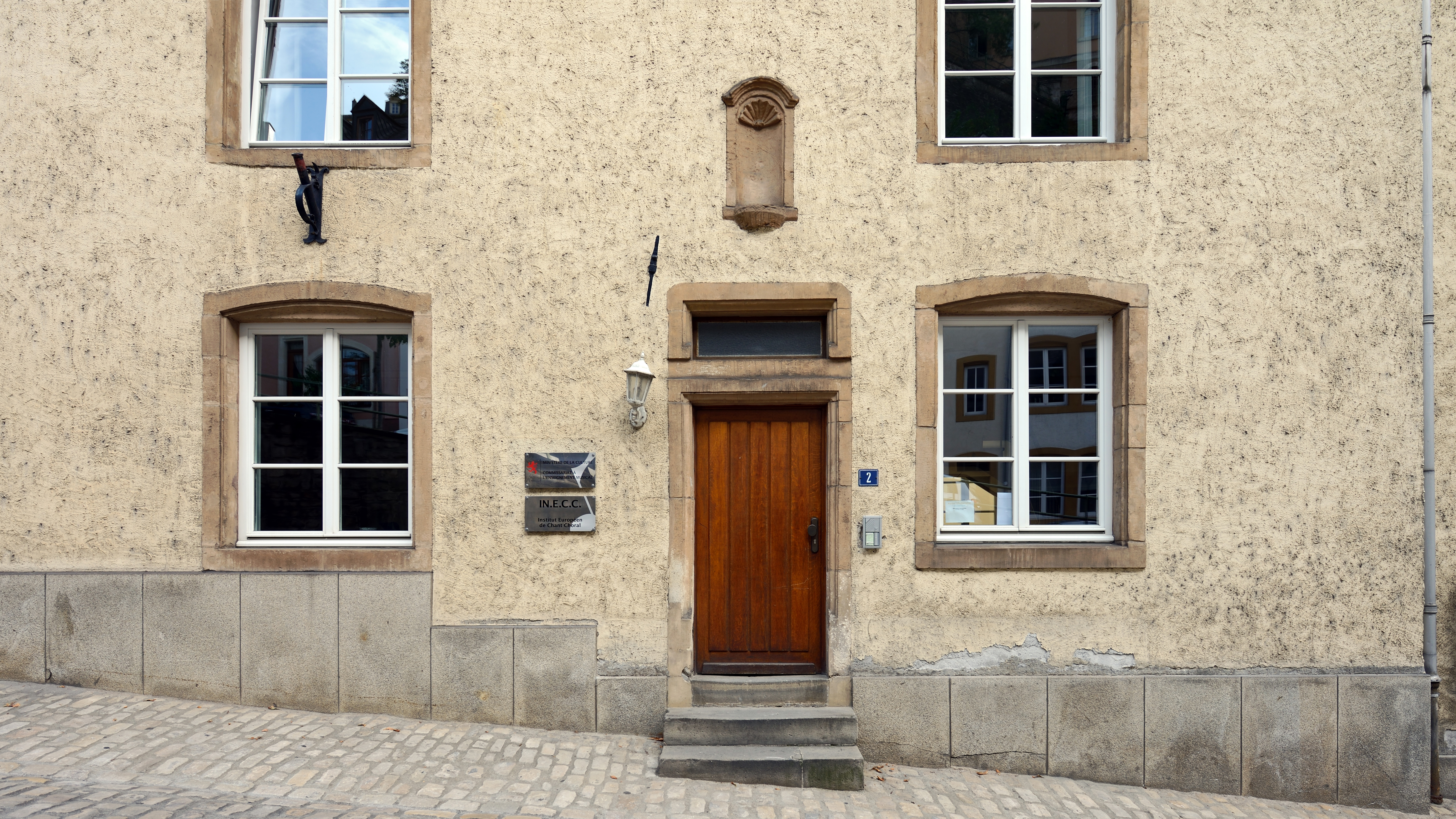 Main entrance of van der Vekene-House in rue Sosthène Weis in Luxembourg-Grund. Erected around 1700, the house is listed as National Monument since Juli 28 1989.